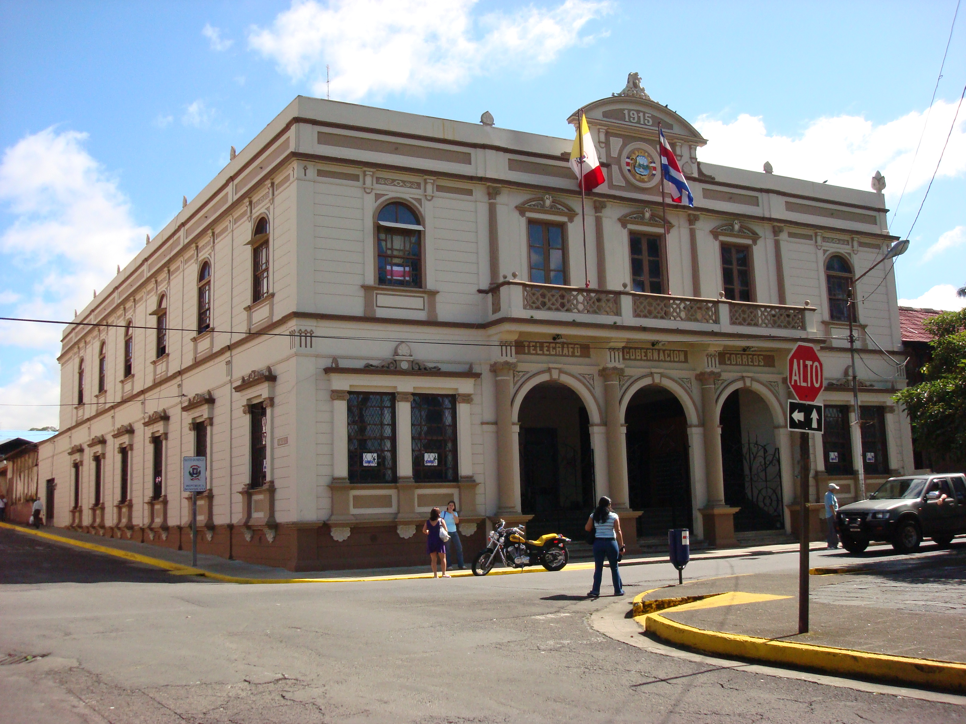 Post office of Heredia, Costa Rica.